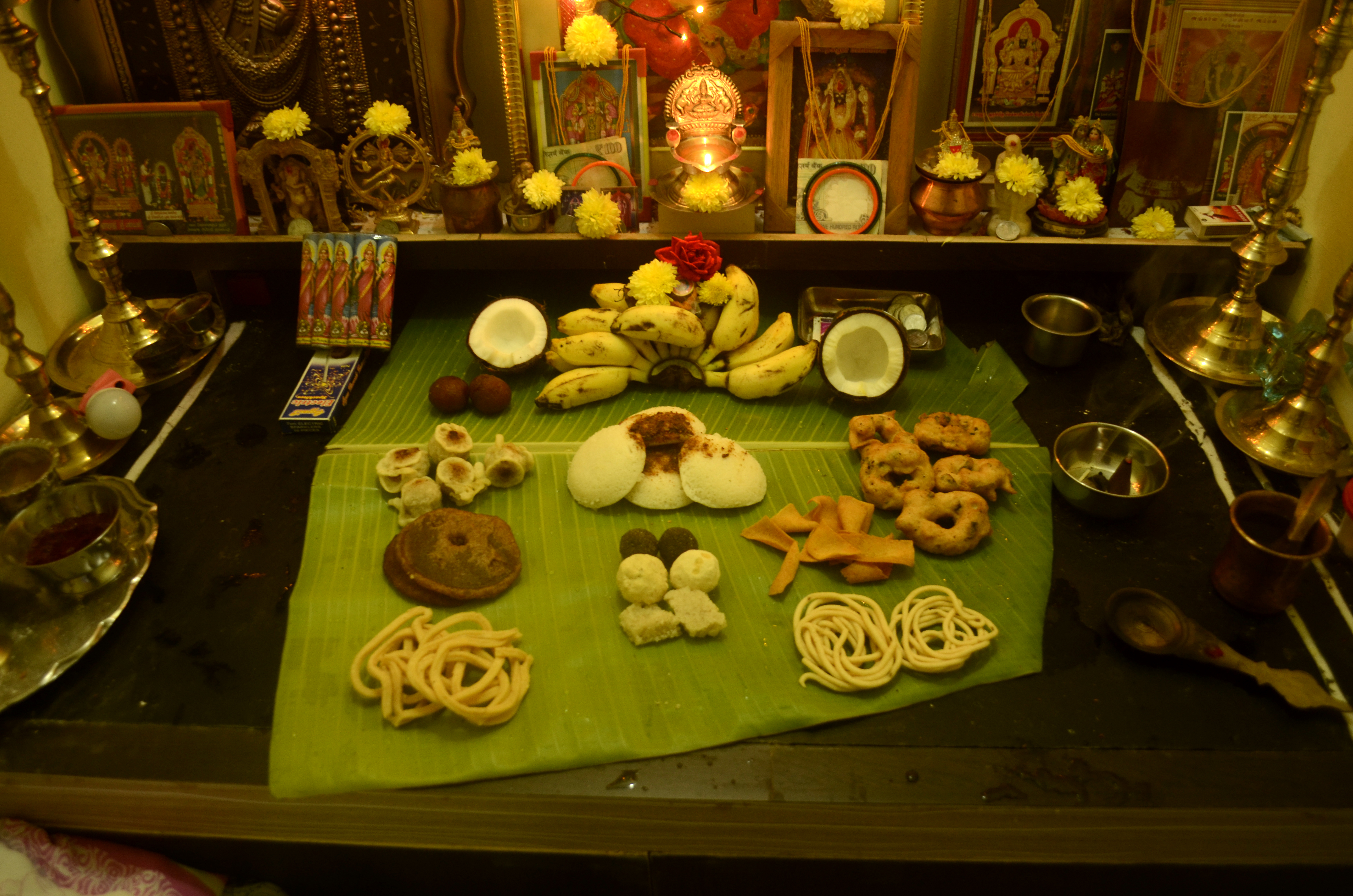 Diwali offerings to god in Tamil Nadu_Diwali Sweets